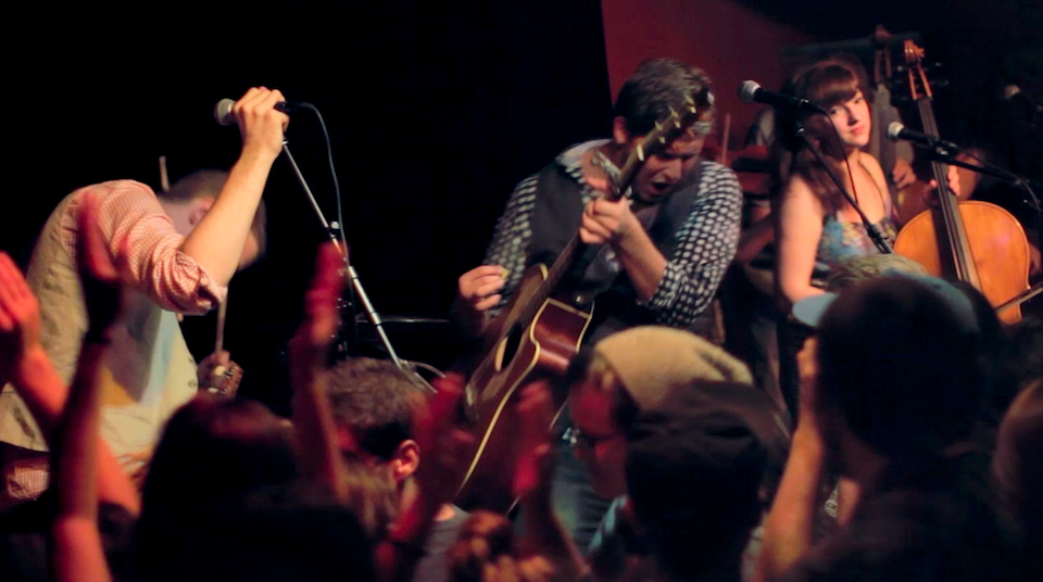 The Ridges performing live in Athens, OH, in 2013.